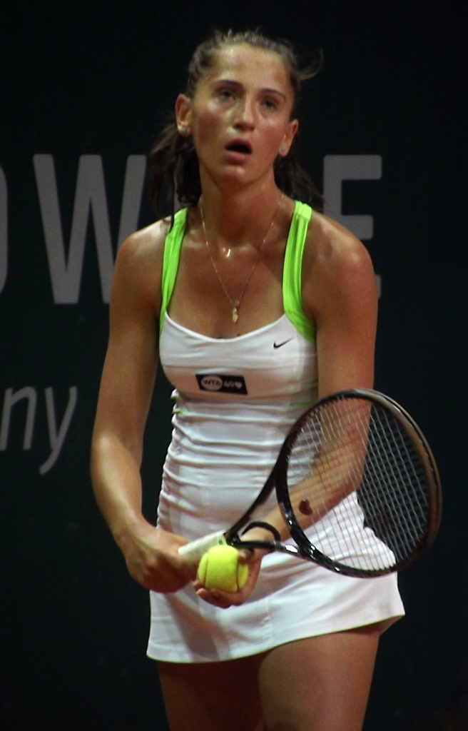 Photo taken during the women's tennis tournament BNP Paribas Open Katowice, Spodek in Katowice.